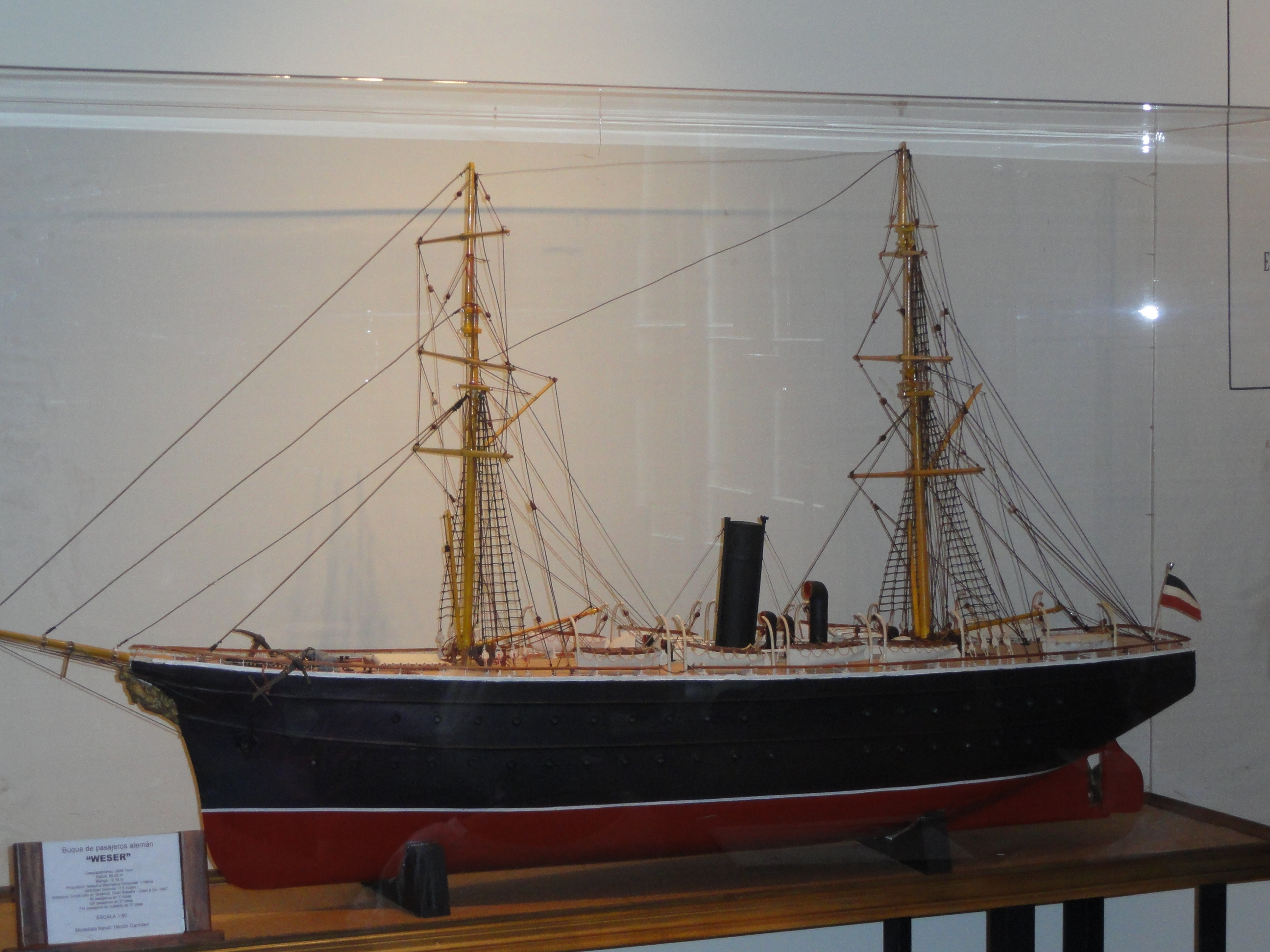 Miniature model of the S.S Weser. She transpoerted in 1889 the first group of Jewish colonists from Russia to Argentina. The model is exhibited at the Jewish Museum of Buenos Aires.